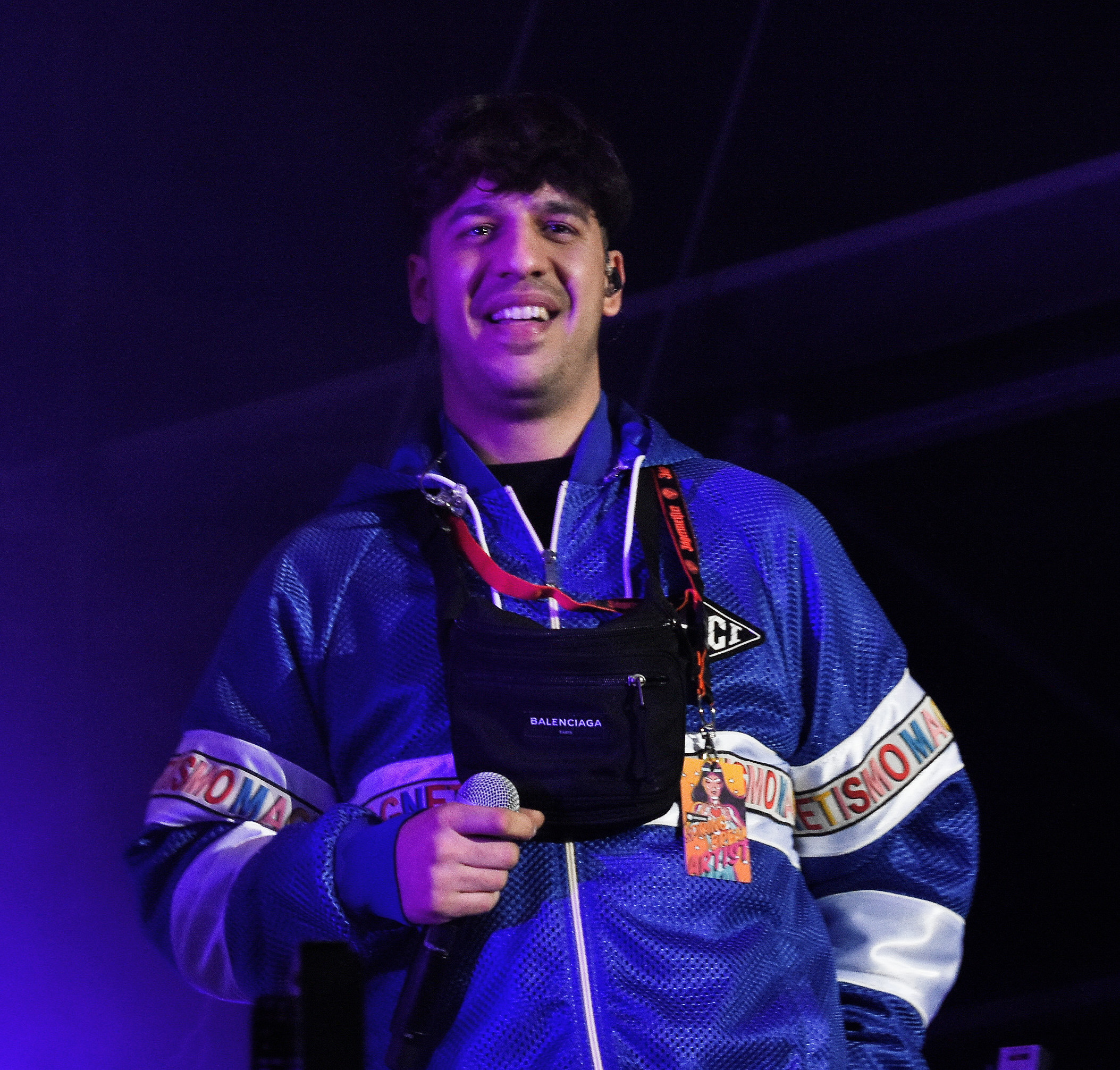 German Rapper Ufo361 at Sputnik Spring Break 2018